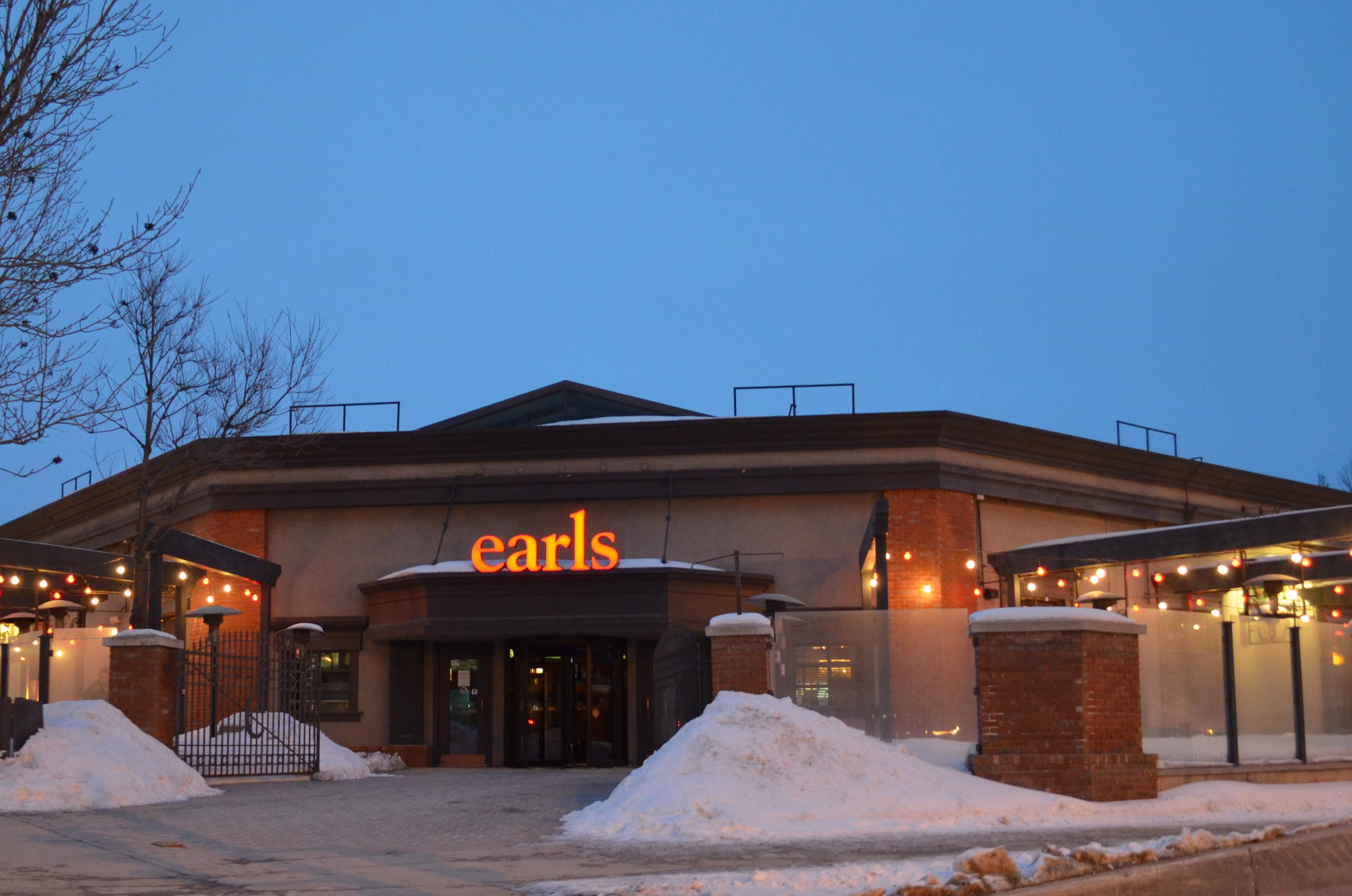 Earls restaurant at 191 Main Street in Winnipeg, Manitoba